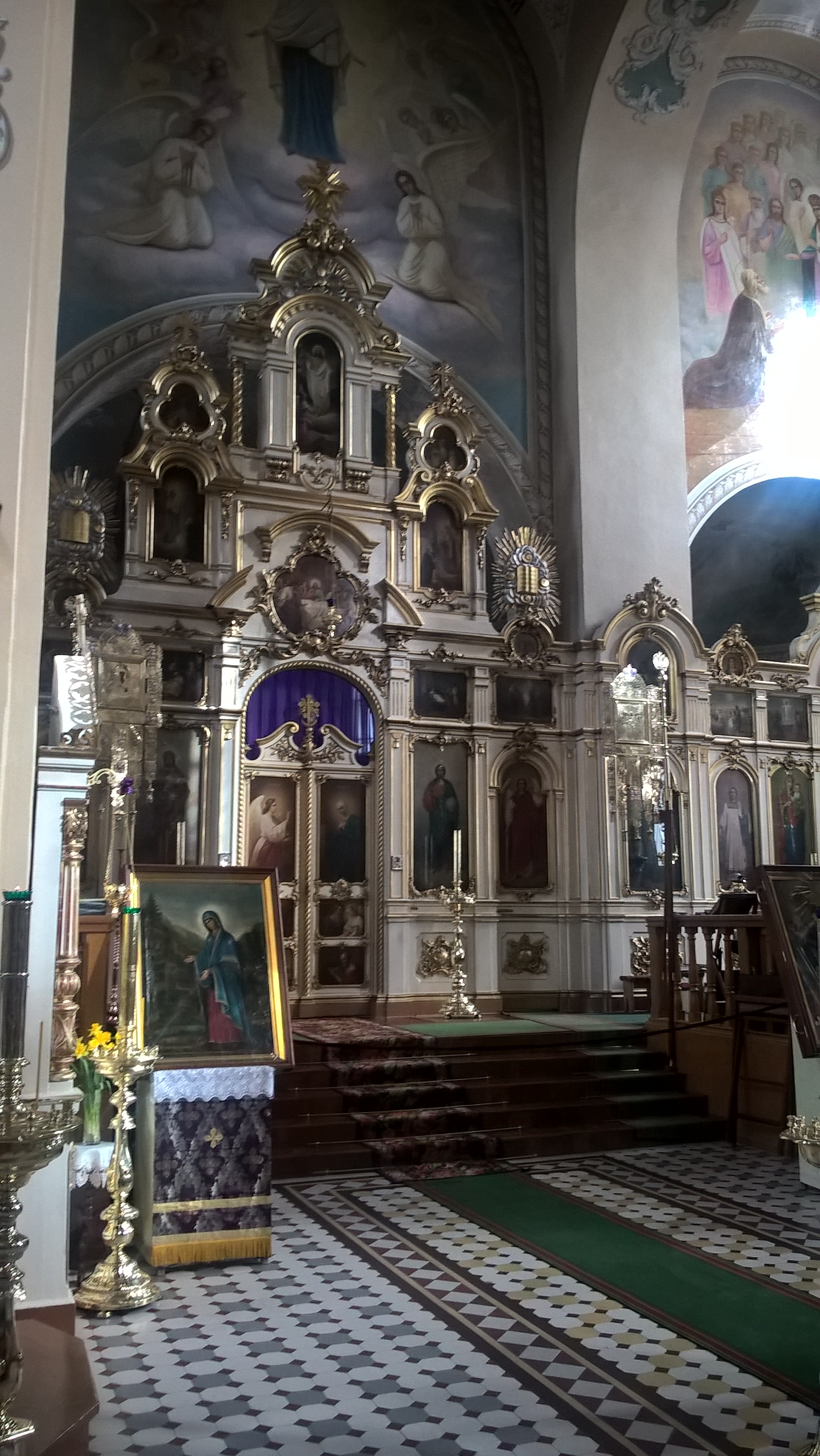 Dormition Cathedral in Puhtitsa Convent, interior